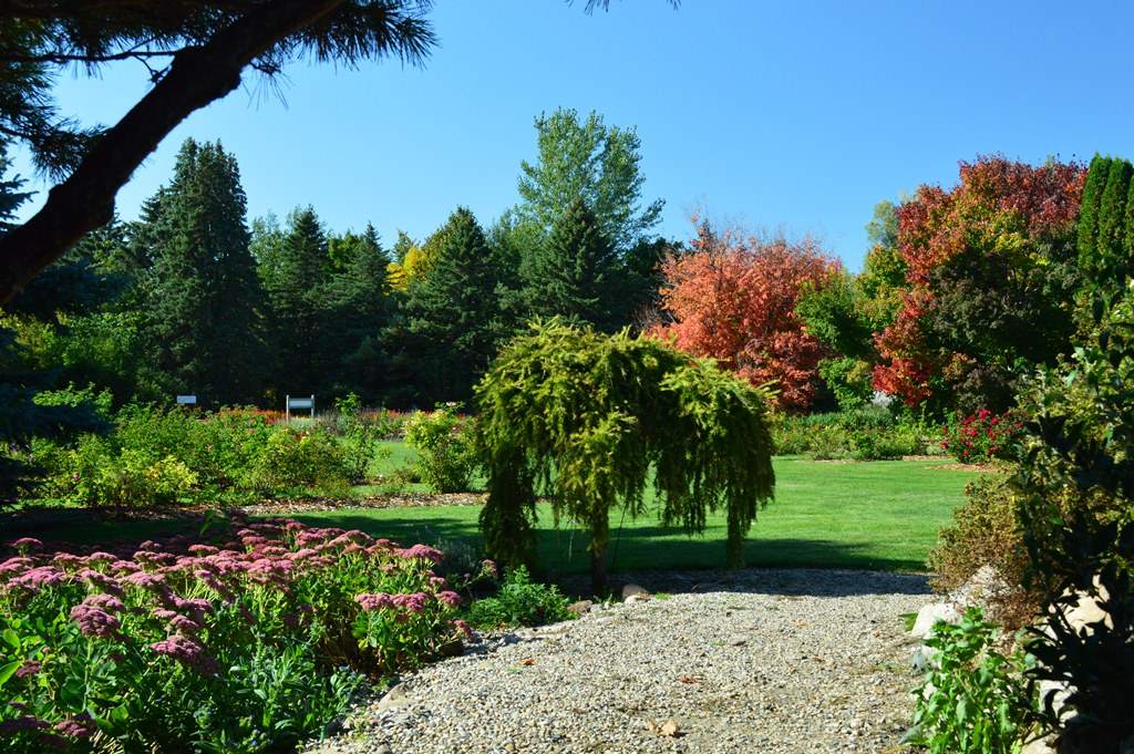 Beauty can be found throughout the gardens!